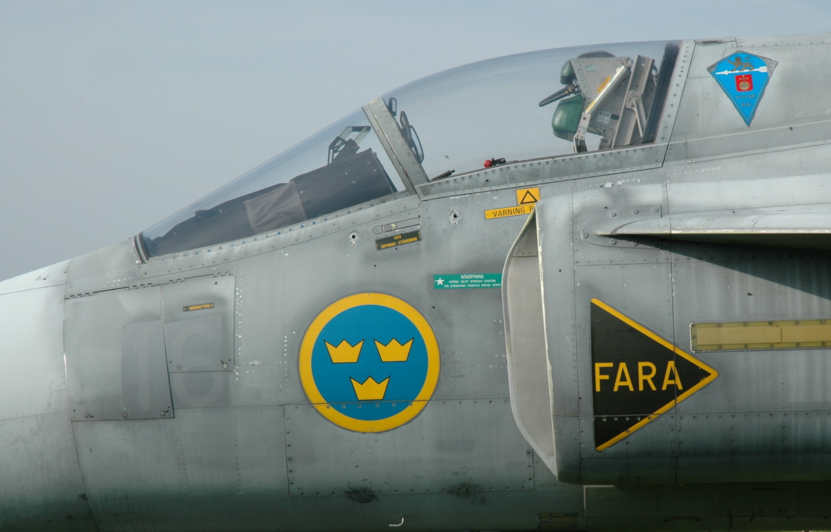 Cockpit and air intake of Swedish Saab JA 37D Viggen fighter at Airplane Museum of Szolnok.